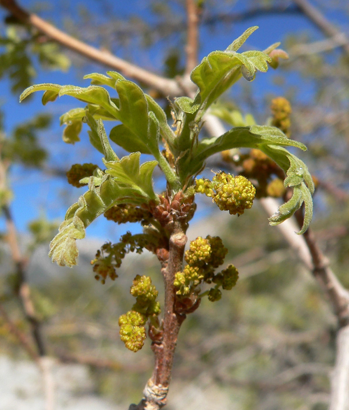 Quercus gambelii at the edge of the wash at the junction of 157 and 158 in Kyle Canyon, Spring Mountains, southern Nevada (elev. about 2100 m)